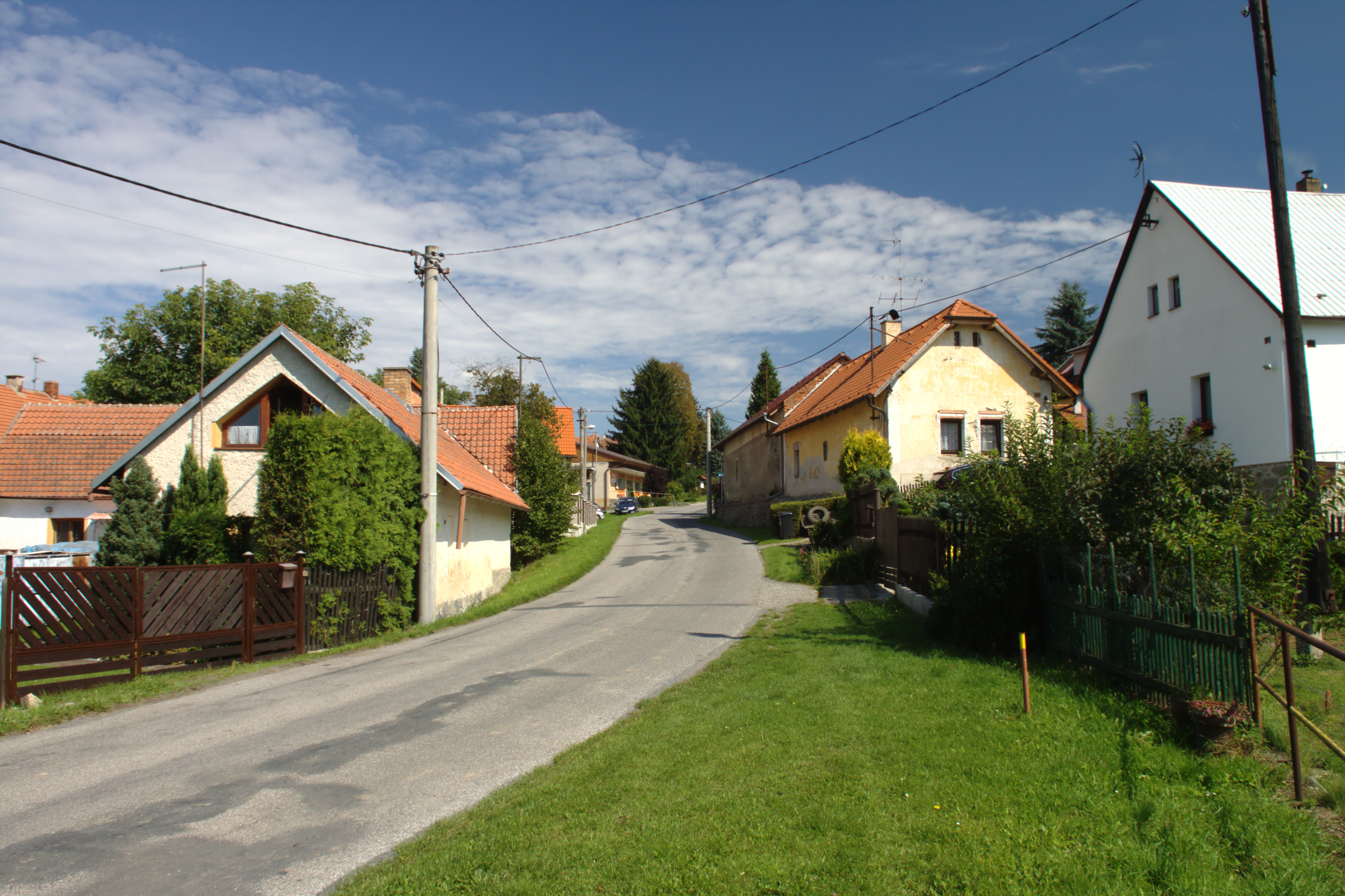 A road towards a pond in Krňany, Central Bohemia